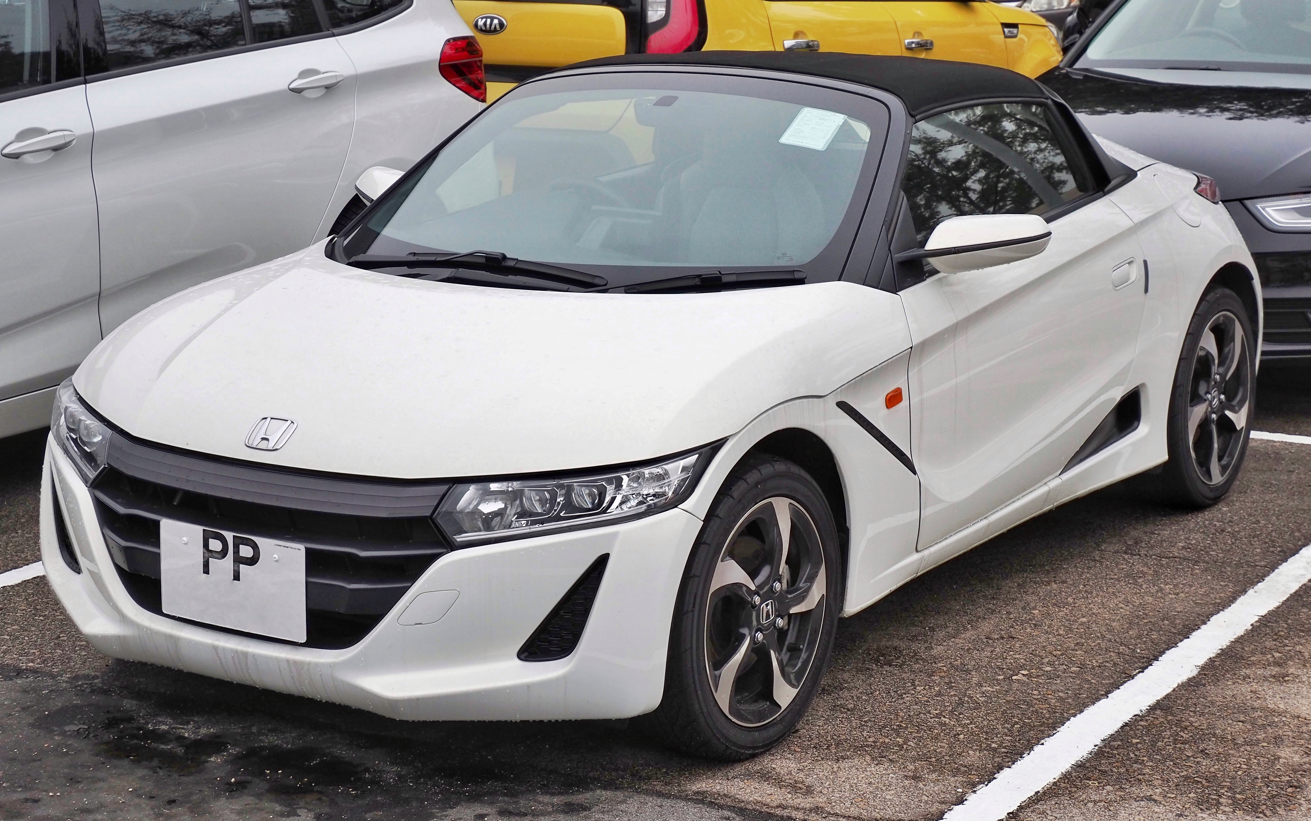 A 2015 Honda S660 taken in Shek O, Hong Kong.